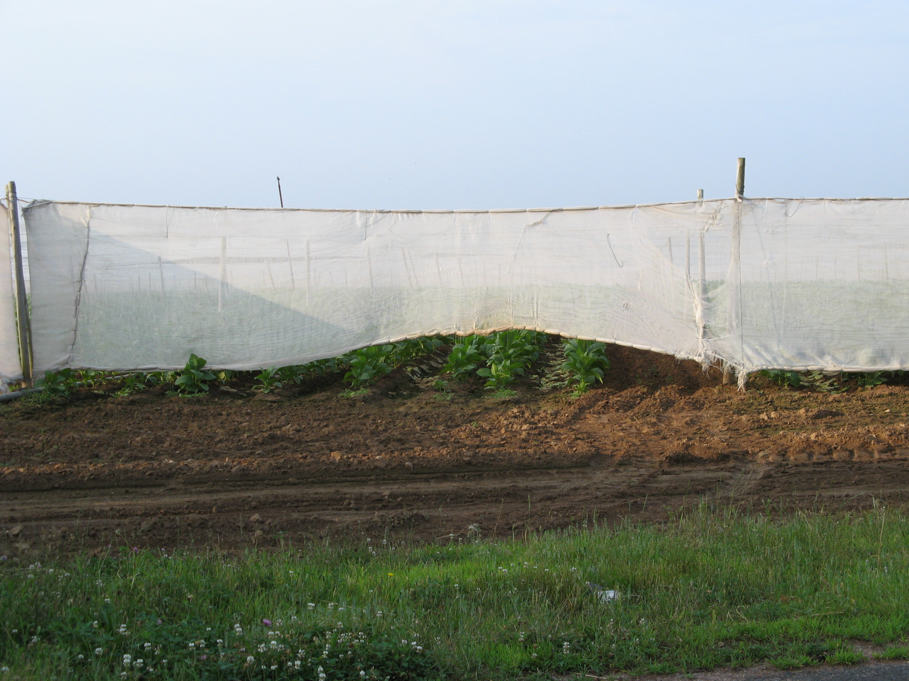 Shade grown tobacco field in East Windsor, Connecticut, United States. Photo taken by myself with my Canon Powershot A710IS and straightened using Corel Snapfire Plus